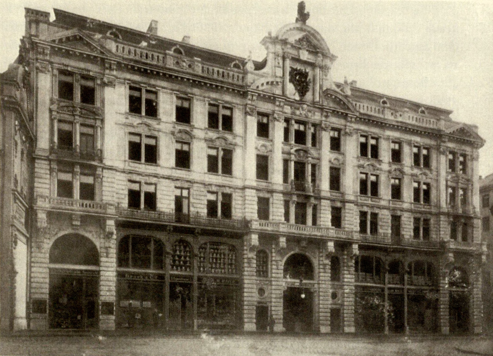 Mathaeserbraeu, Munich, Germany; at one time the largest brewery in the world; The image shows the front building near Karlsplatz in 1893, which was destroyed in 1944.